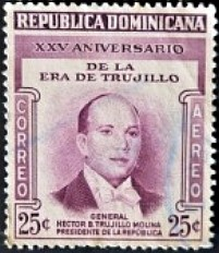 1955 postage stamp of Hector Trujillo, 1952-1960. H. Trujillo was figurehead president during the rule of his brother, strongman Rafael Leonidas Trujillo.